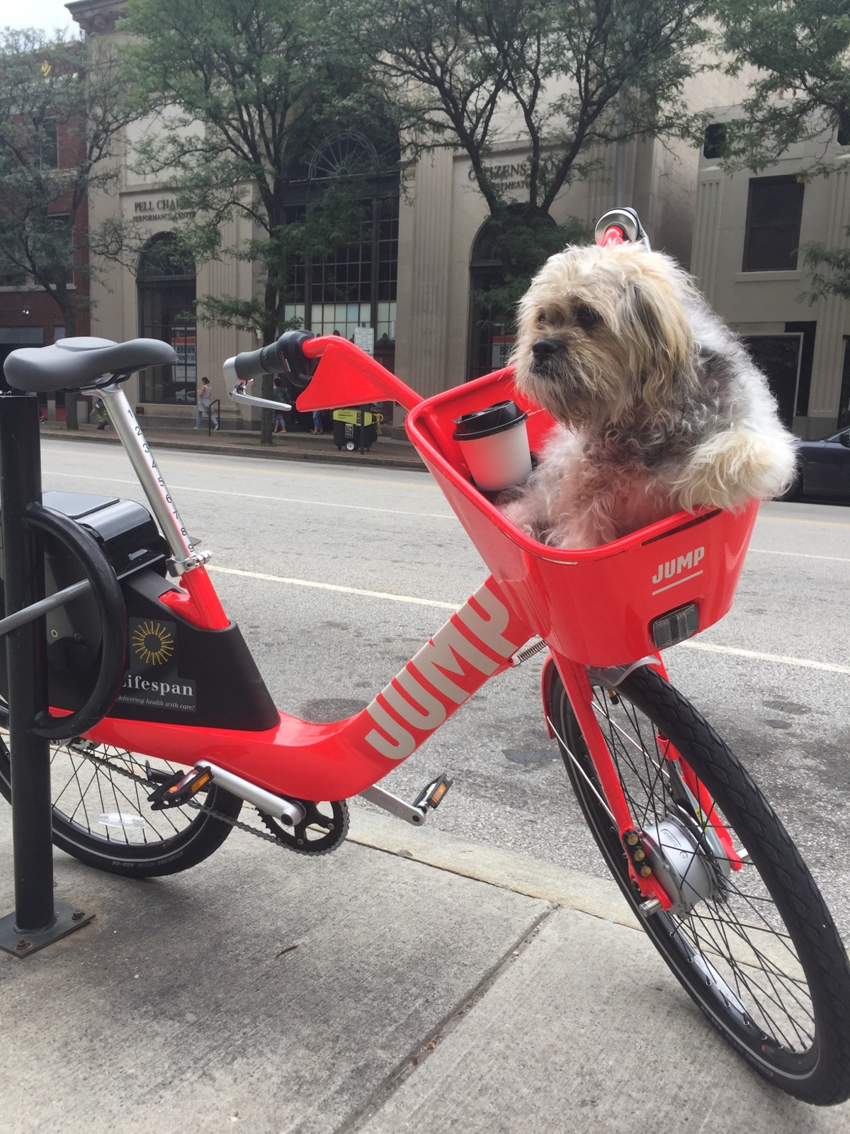 This is an image of a jump bike in Providence, RI.